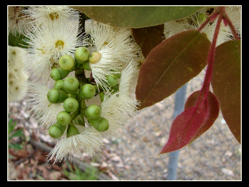 Tree to 30 m high. Flower, buds, bright 'bristle' juvenile leaves. Cadaghi is a eucalypt and referred to as a plant native to Australia, in fact native to the Atherton Tablelands, 1,000 kilometres north of Brisbane. It was a popular garden plant about twenty years ago, but its foliage was susceptible to sooty mould and developed an unhealthy appearance in gardens. Consequently it is not grown any more. There are many of old trees in my suburb, like this one - grows in the street near my office (SW Brisbane)